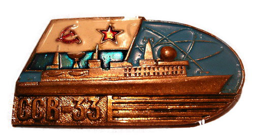 Breastplate from the Soviet Command ship Ural (SSV-33).